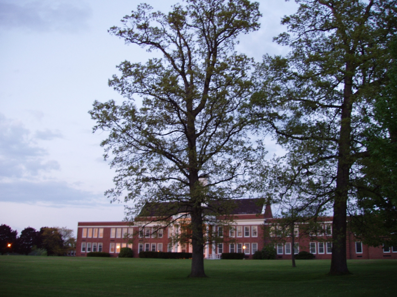 South Seneca Junior/Senior High School (In Ovid) David Harris, SSCS Darthdavid 04:58, 14 February 2007 (UTC)